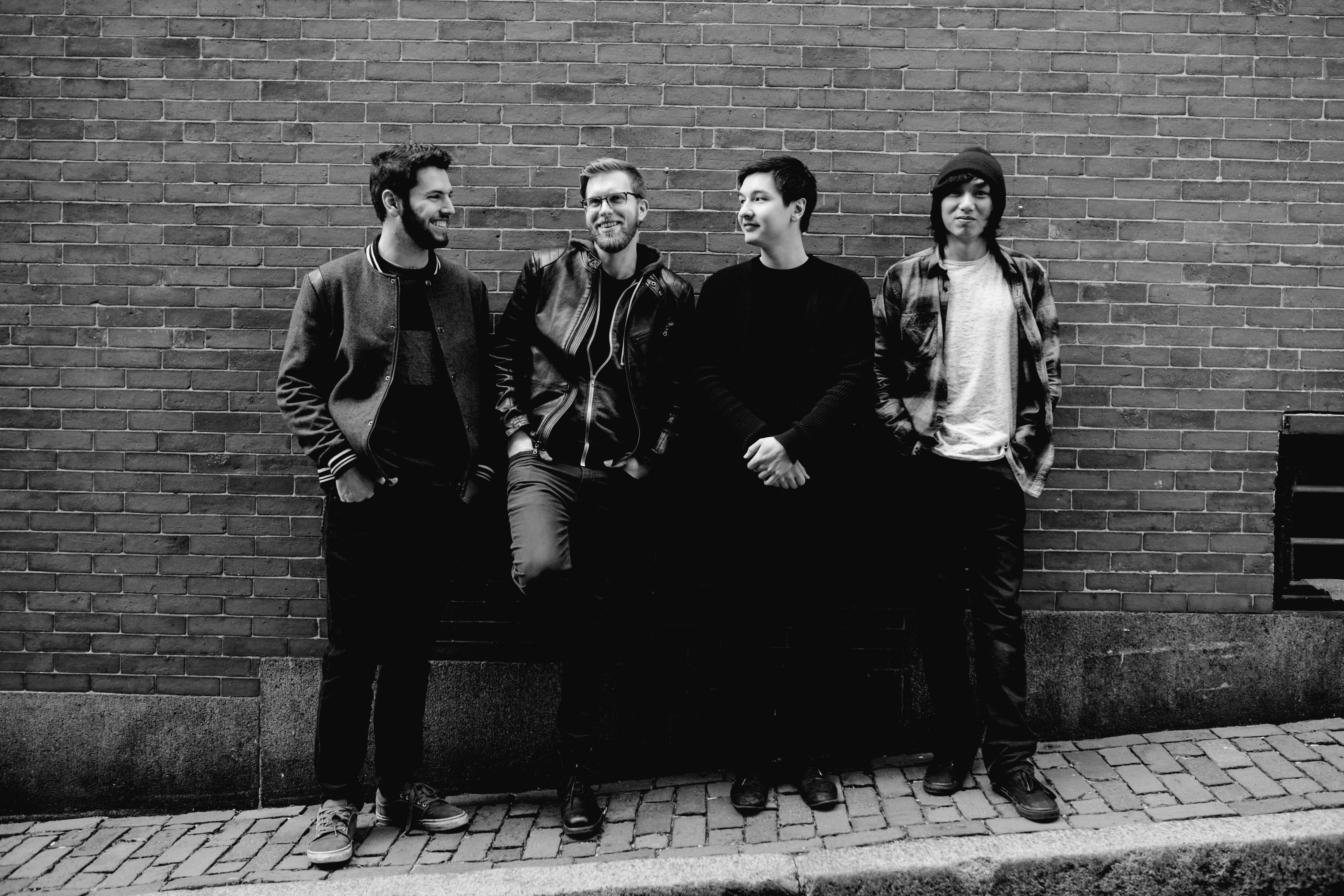 Photo of the group